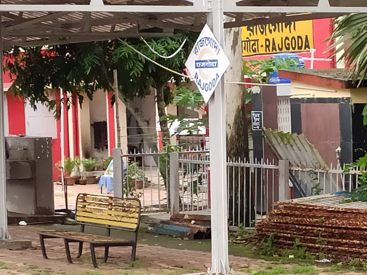 Railway Station